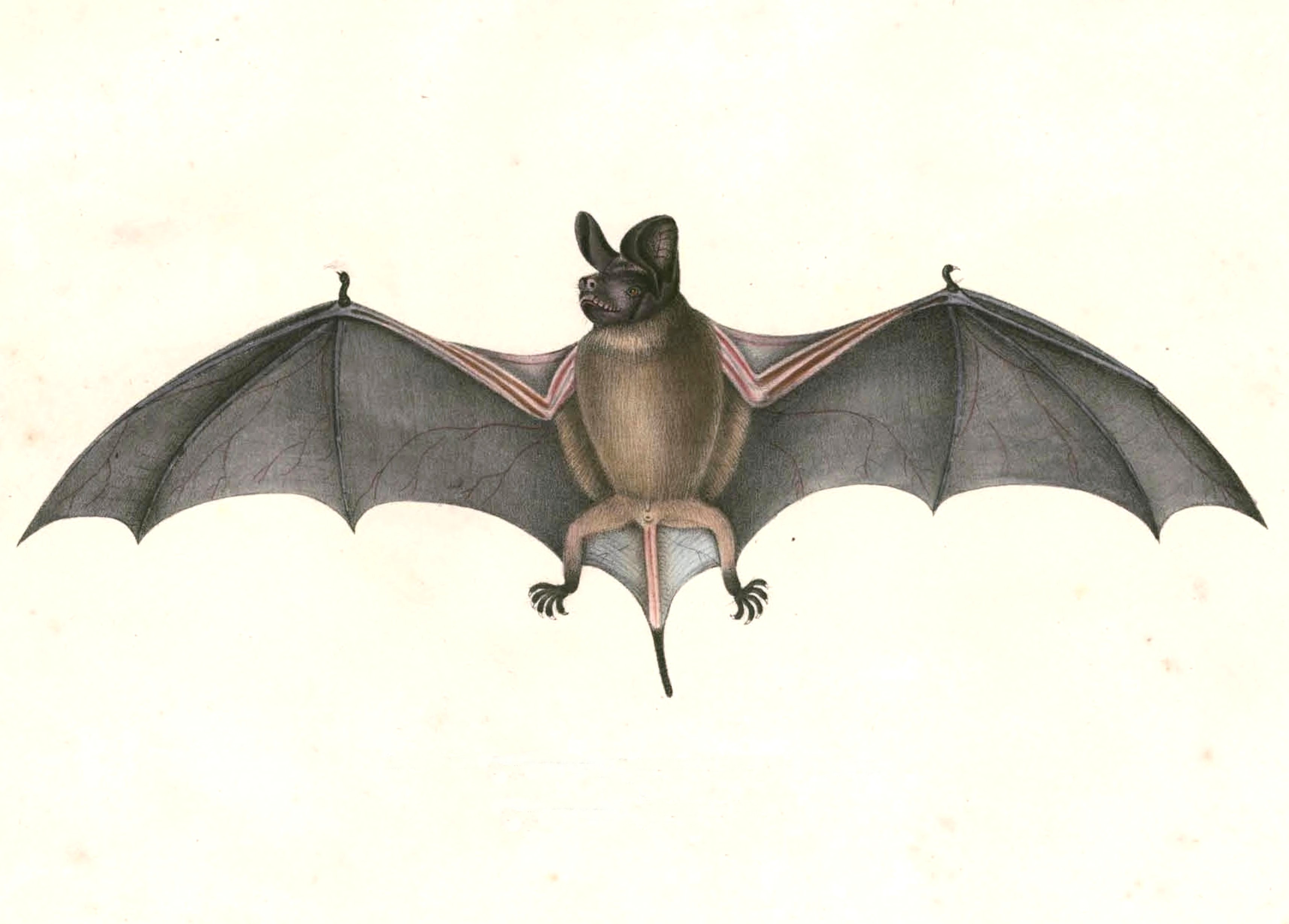 « Dysopes murinus » = Chaerephon plicatus (Wrinkle-lipped free-tailed bat)